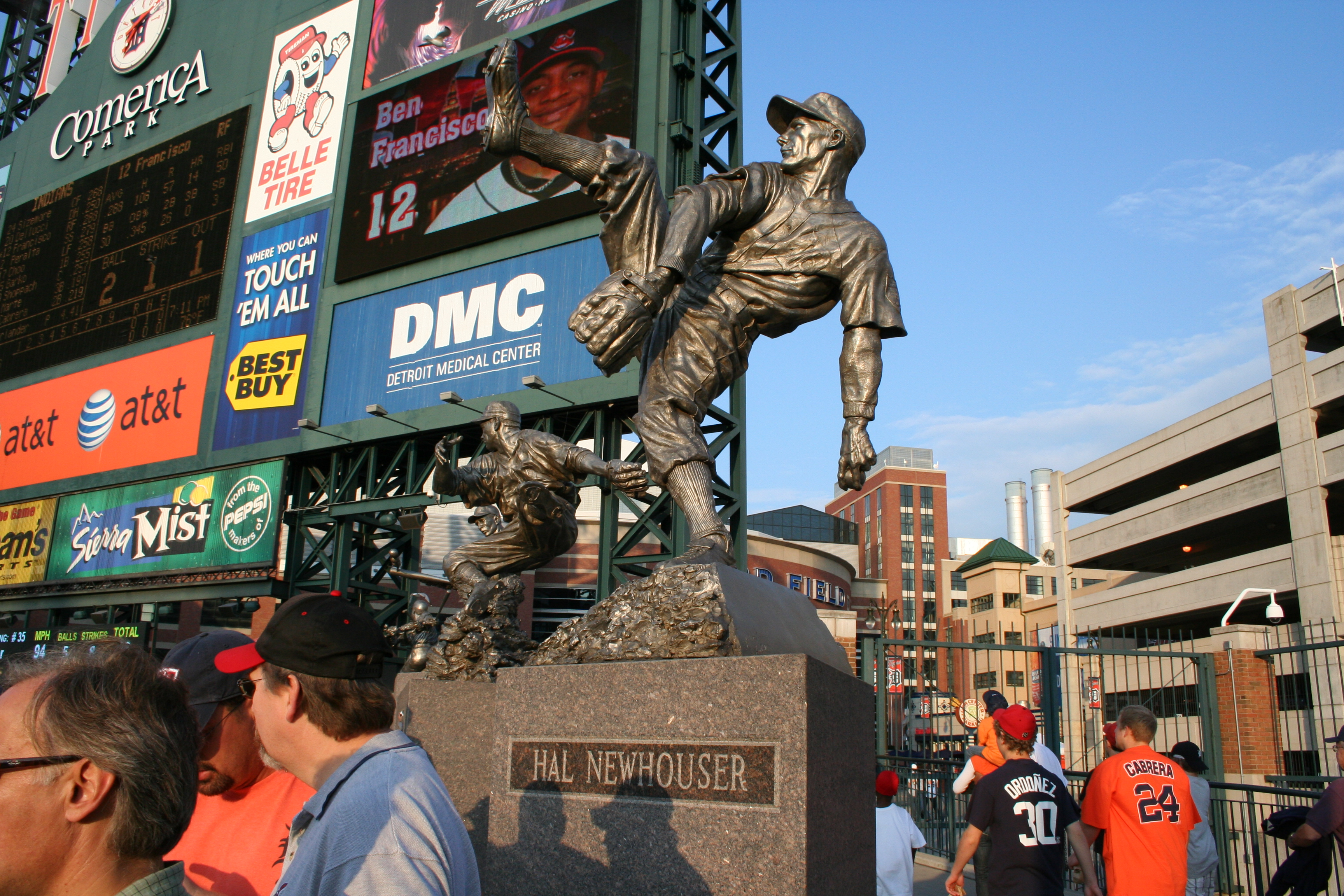 A picture of the statue of Hal Newhouser inside Comerica Park, 2008.